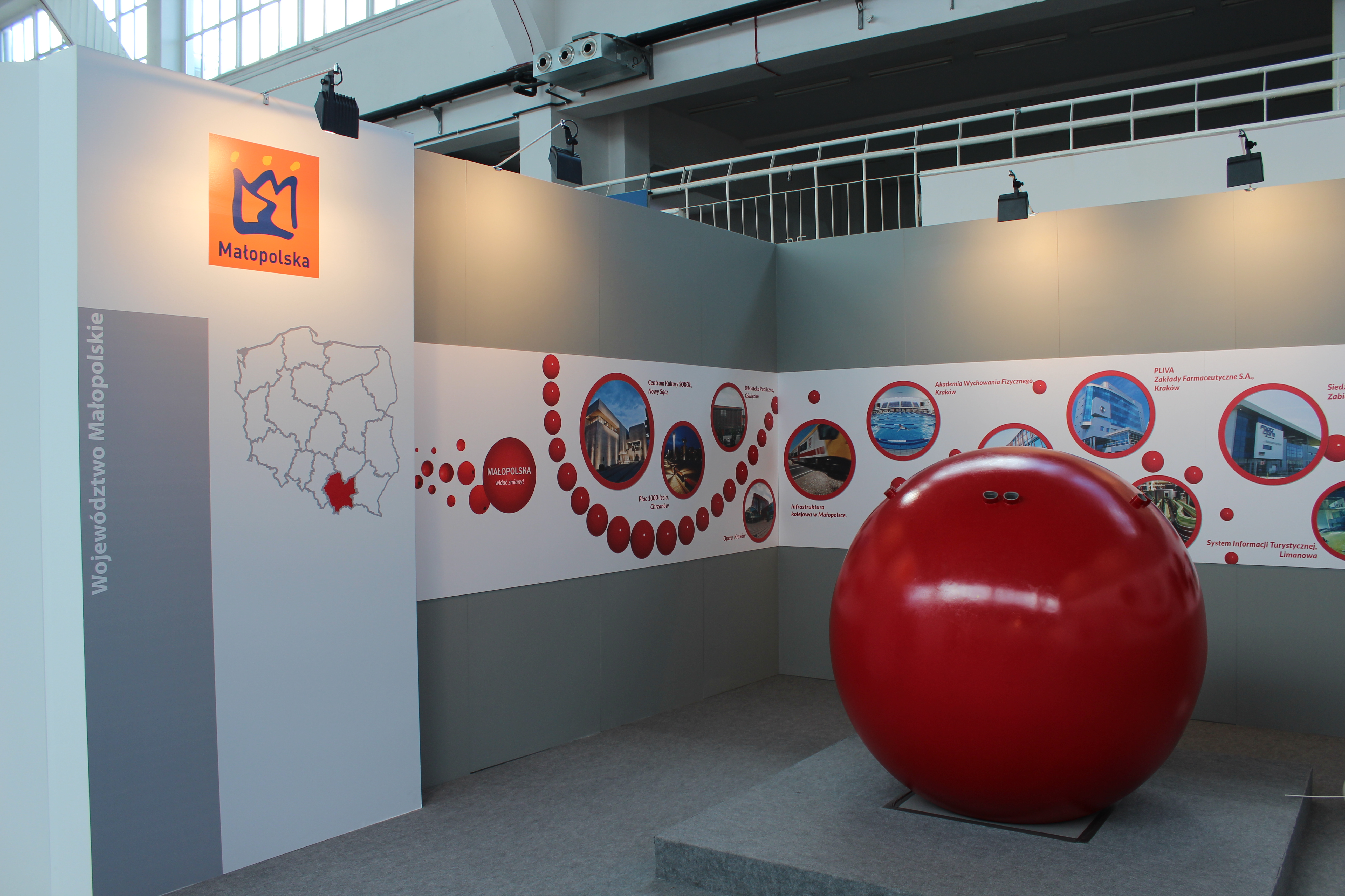 2nd General National Exhibition "Competitive Poland 1989-2014" - voivodeships presentation